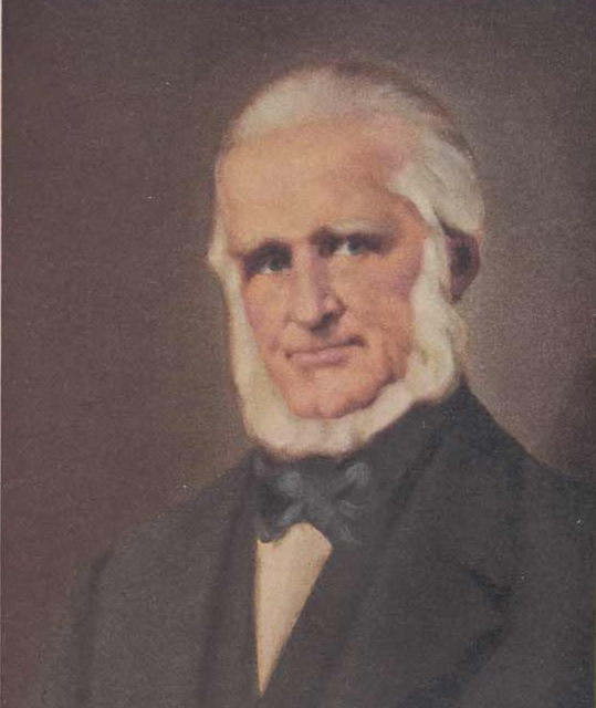 Original caption: " From the private collection of Williams Perkins Bull BARTHOLOMEW BULL The Patriarch of Spadunk"